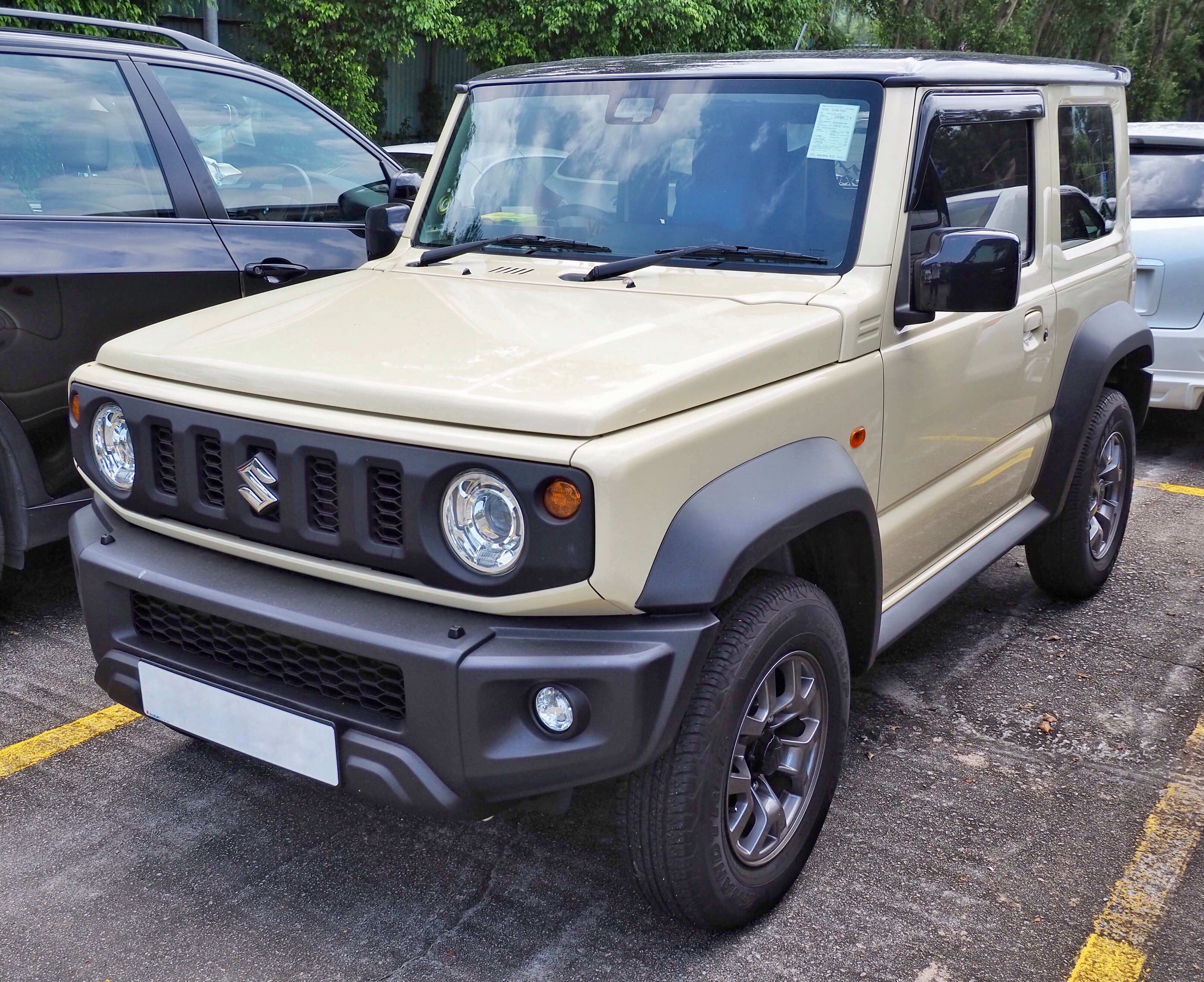 A 2019 Suzuki Jimny photographed in New Territories, Hong Kong.